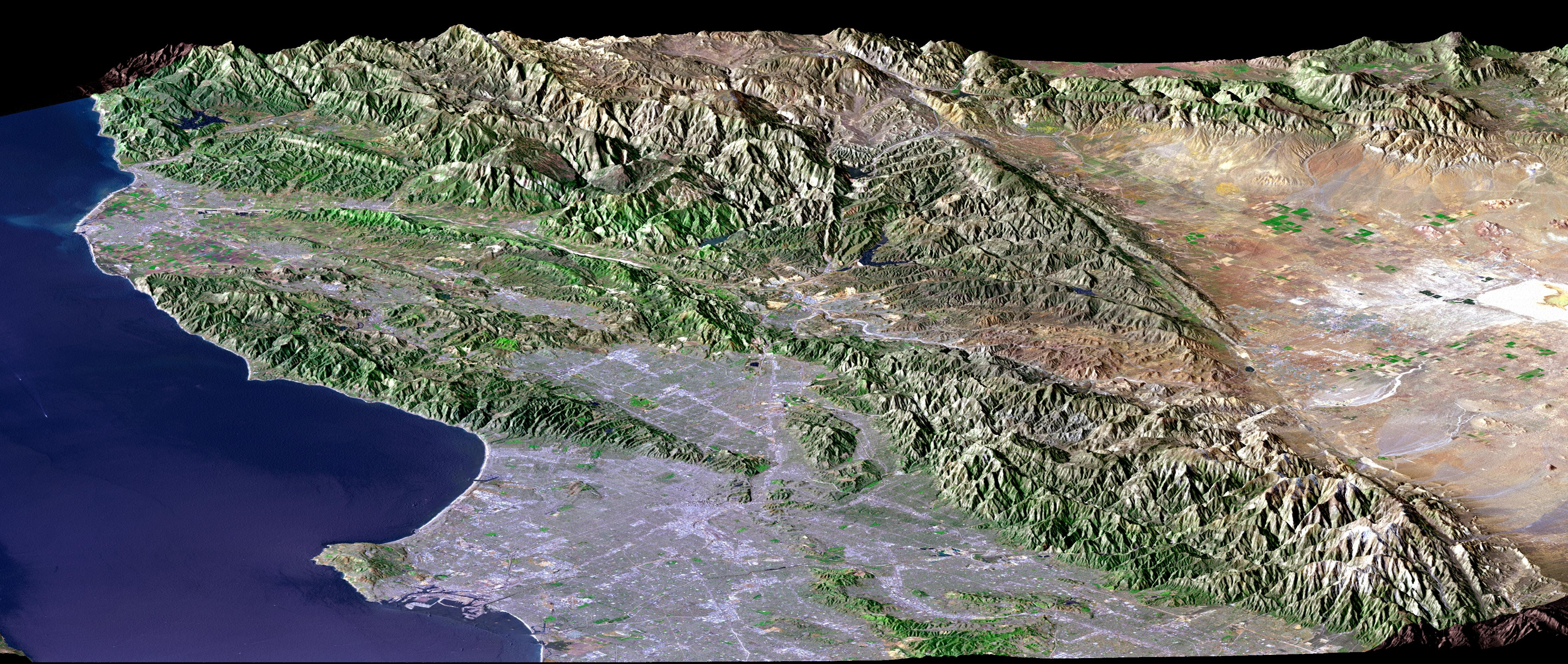 Perspective image of Los Angeles and the Transverse Ranges - from NASA's Shuttle Radar Topography Mission (SRTM)